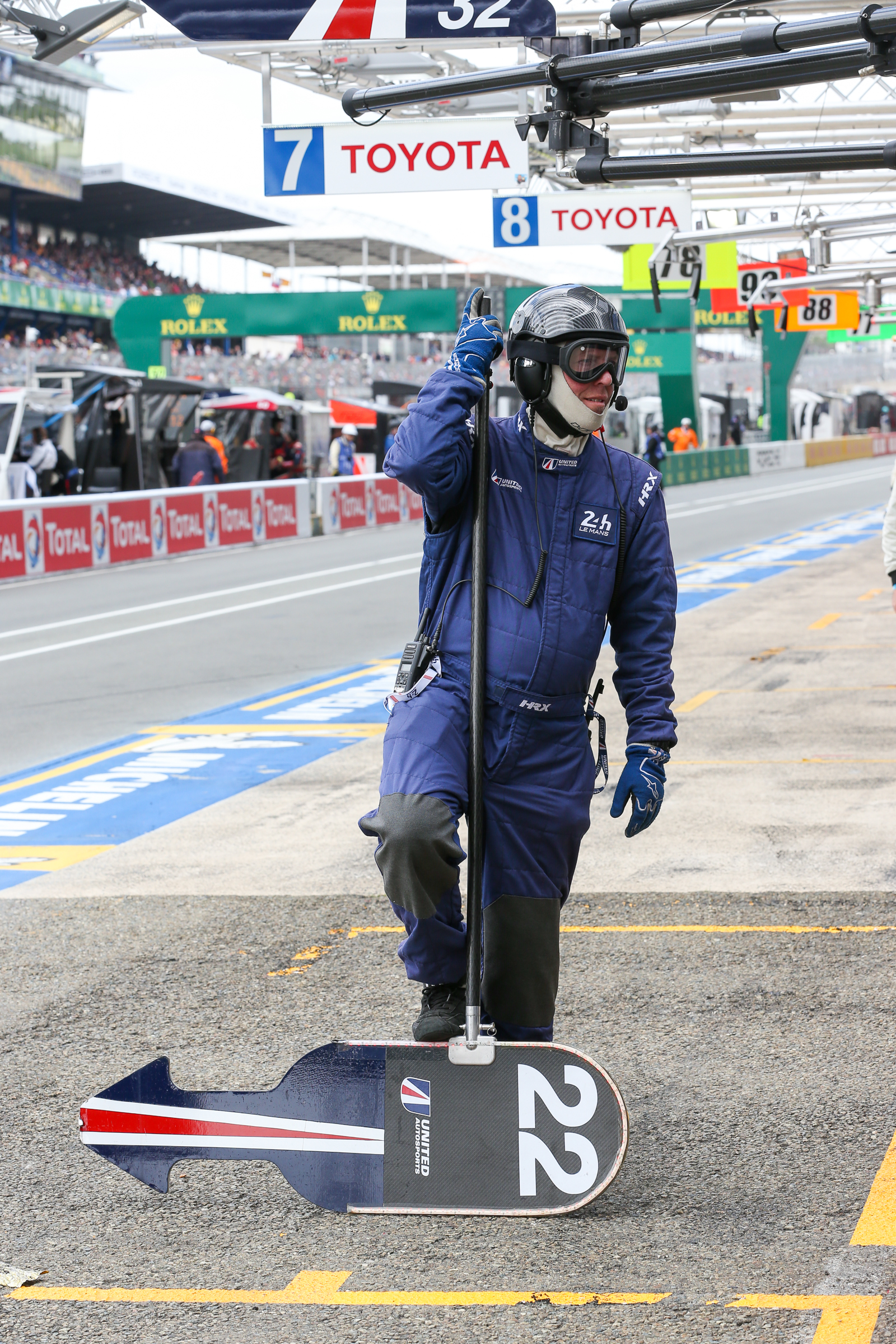 Pit crew awaiting for No. 22 car at 2019 24 Hours of Le Mans